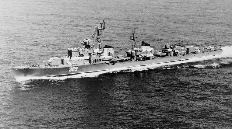 The Soviet project 30-bis Skoryy class destroyer Ser'yoznyi in the Mediterranean on 28 August 1968.